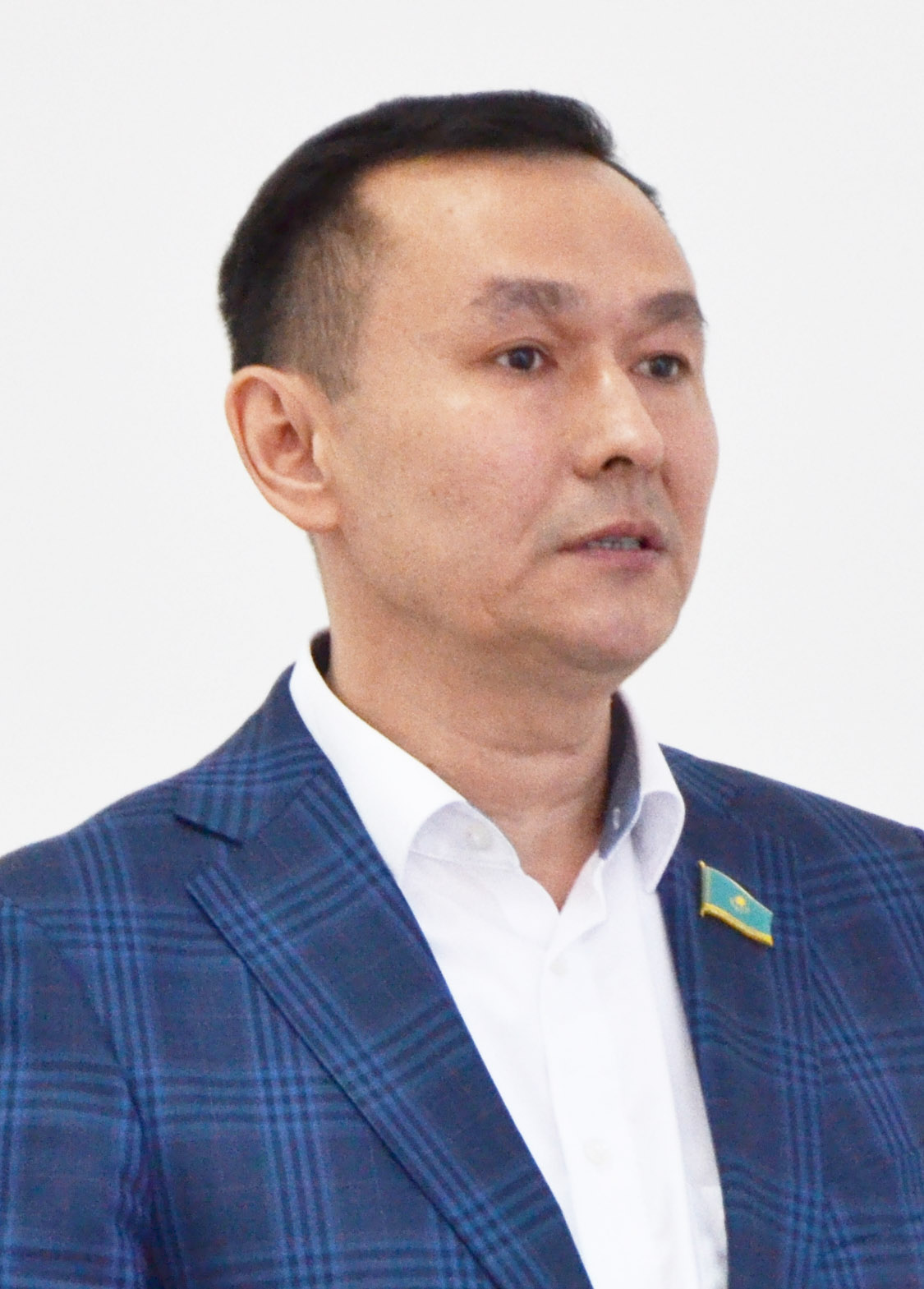 Qongyrov during a trip to the Almaty Region.